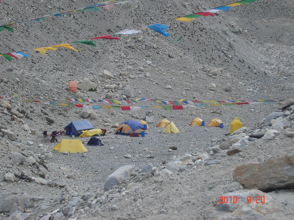 Tents of climbers from top of hill at Everest Base Camp These are tents of climbers in the restricted area not open to tourists.